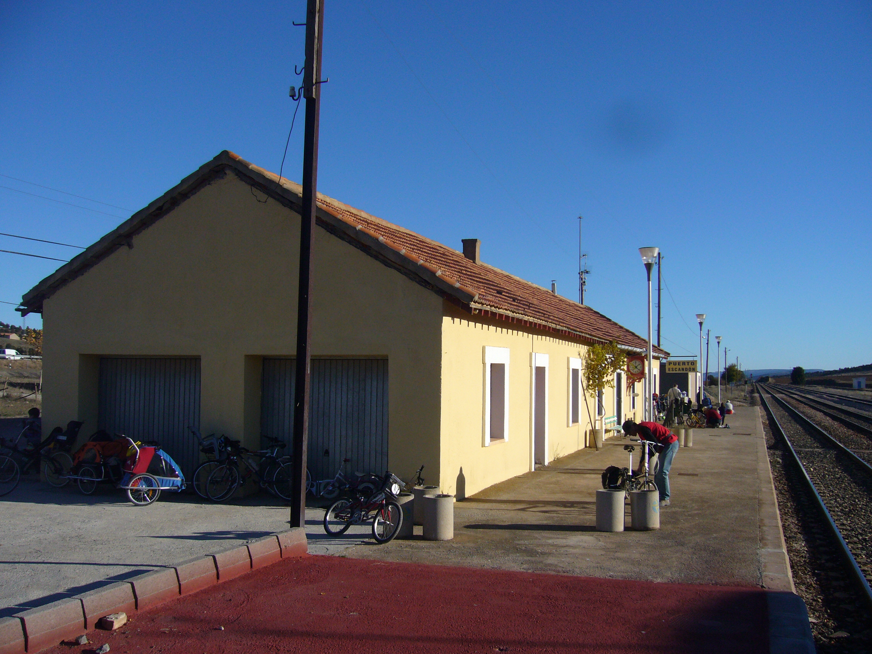 Puerto Escandón estation